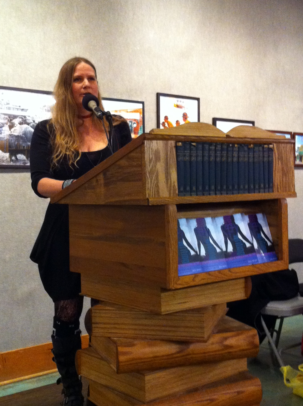 Lidia Yuknavitch at Powell's, Best Sex Writing 2012